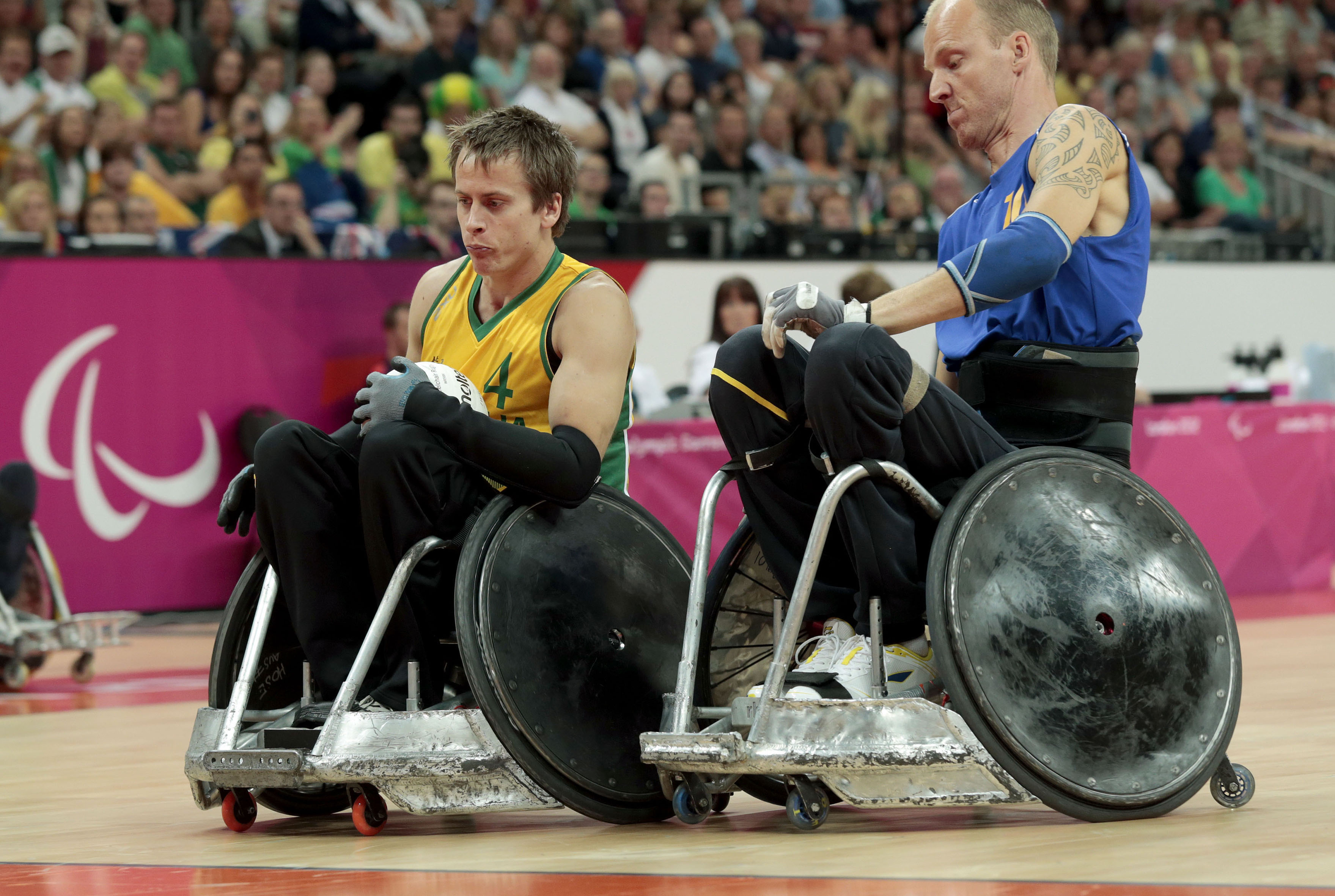 Photograph of Australian Paralympic team member Josh Hose at the 2012 Summer Paralympic Games in London